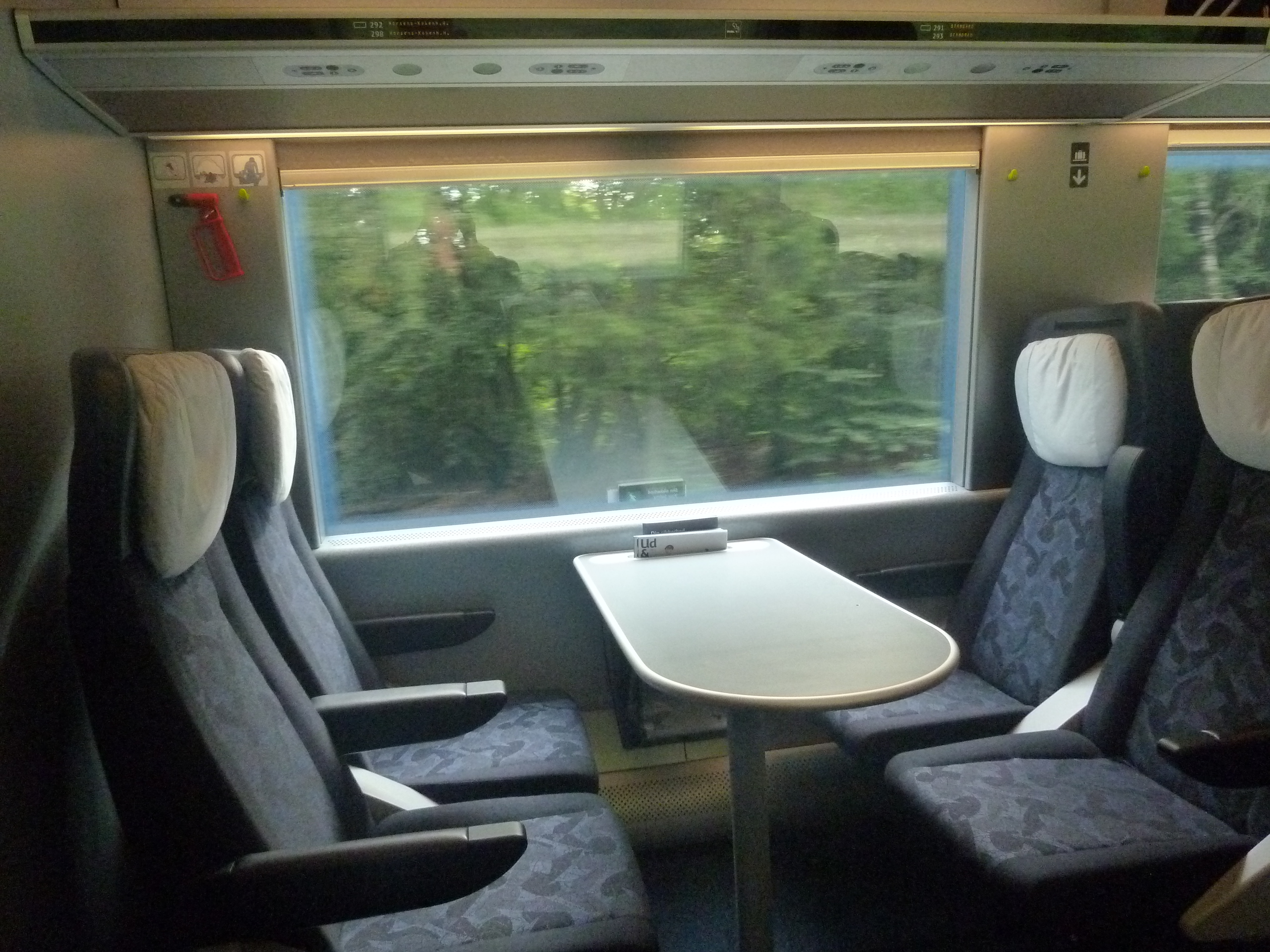 Interior of diesel multiple unit IC4 22 in Denmark.